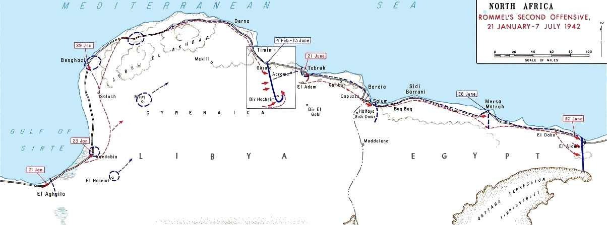 Rommel's second offensive -- January 21, en:1942 - July 7, en:1942